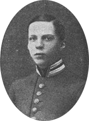 Shuvalov, Graf Nikolay Pavlovich.